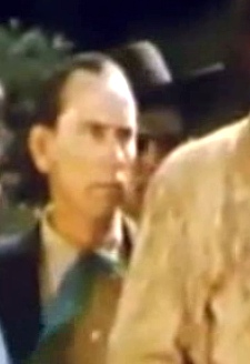 Dan White (March 25, 1908 – July 7, 1980) was an American actor, well known for appearing in Western films and TV shows. This is an image isolated from a scene in a public domain film. (This image is low resolution, if a higher resolution scan of the film becomes available this image should be updated.)